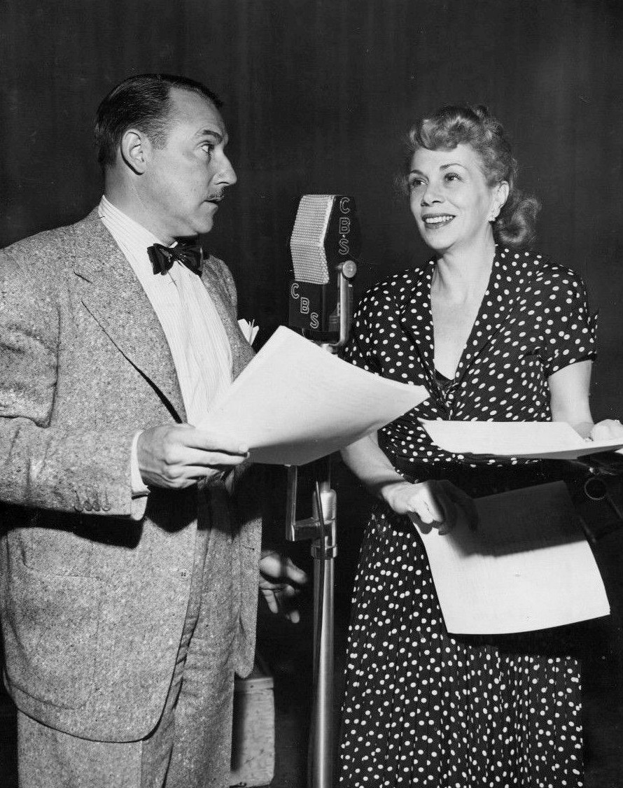 Photo of Gale Gordon and Bea Benaderet performing in Granby's Green Acres. The radio program was a summer replacement for Lux Radio Theatre in 1950. The item has no copyright markings on it as can be seen in the links above.